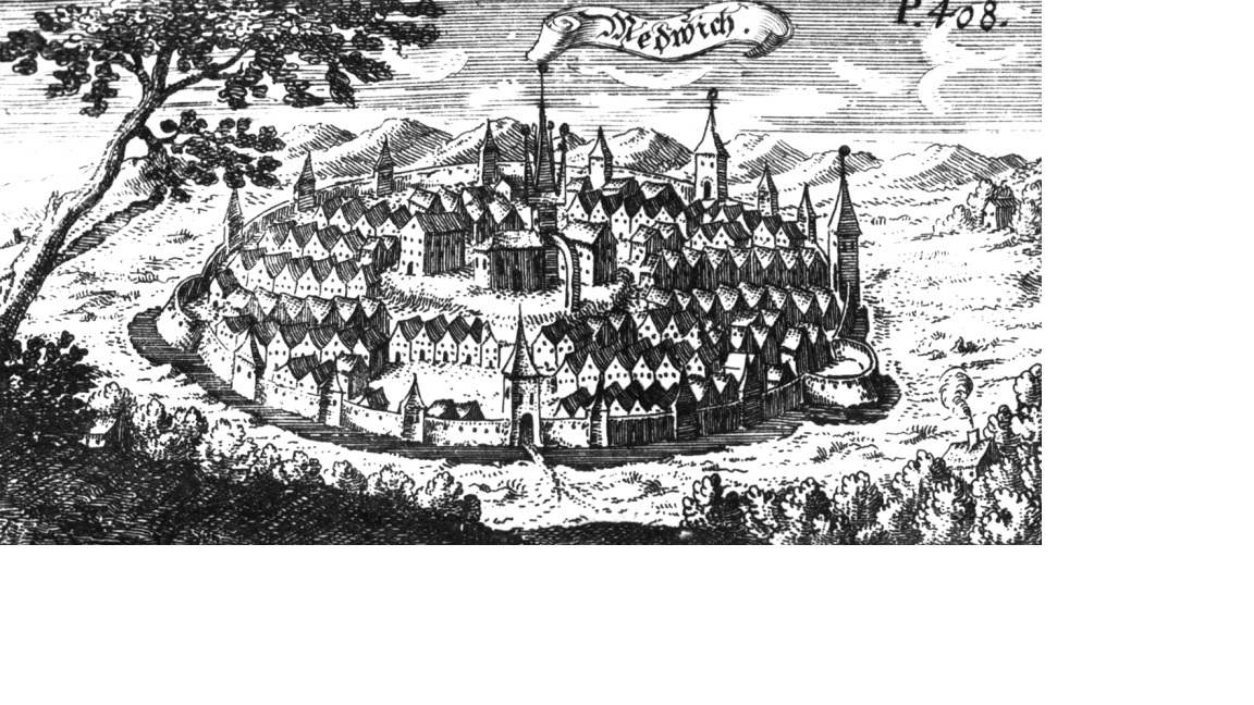 picture of the town of Medwisch (Mediaș) from 1666